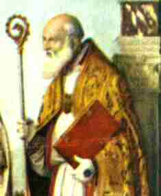 St Olegario